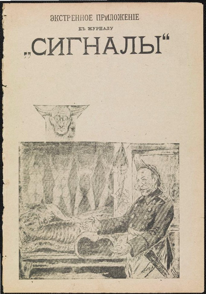 Cover of Signals Magazine (1906).